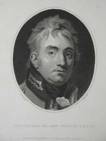 Lieut. General Sir John Cradock, K.B. & K.C. T. Lawrence pinxt. J. Godby sculpt. Published Jany. 2nd. 1809. by Edwd. Orme. Bond Street, corner of Brook Street, London. Stipple engraving. 200 x 260mm. Baron Howden [1762 - 1839]. Source: [1]